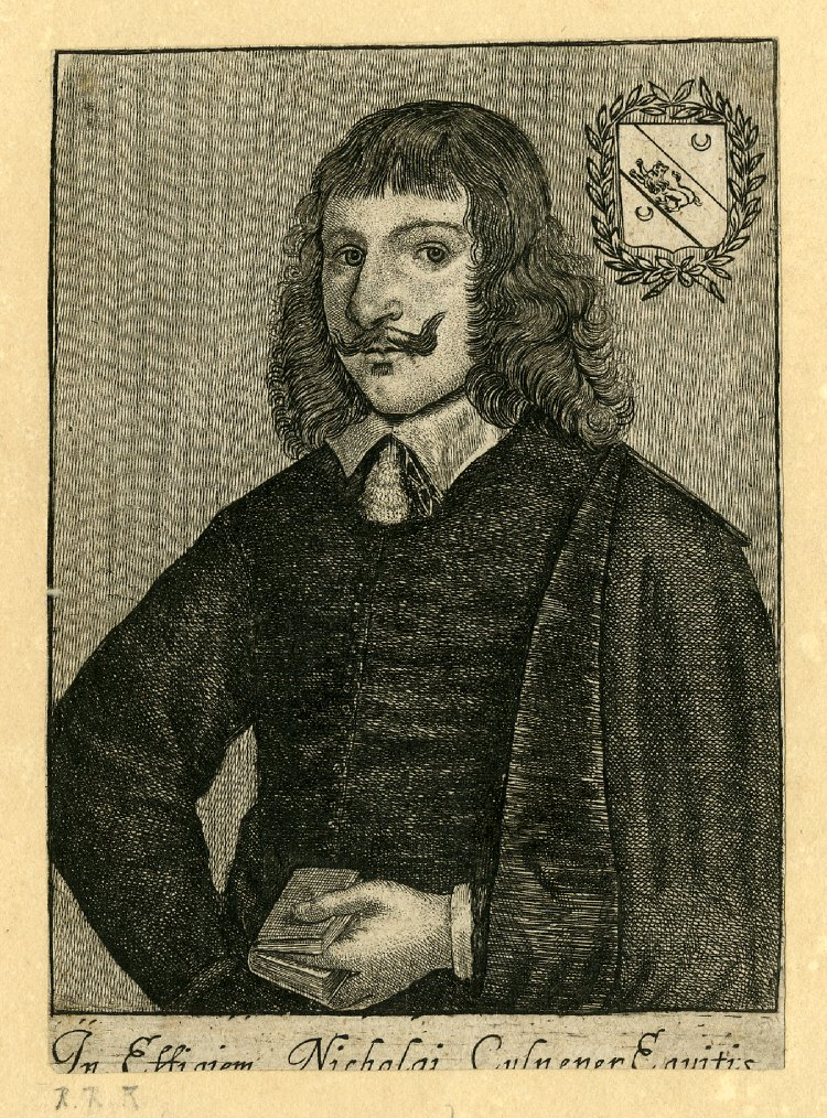 "In Effigiam Nicholai Culpeper Equitis," portrait of Nicholas Culpeper, etching, by printmaker Richard Gaywood. 126 mm x 90 mm. Courtesy of the British Museum, London.